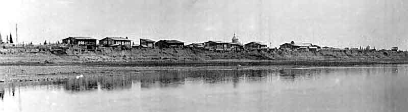 Village Ust-Ilych 1911